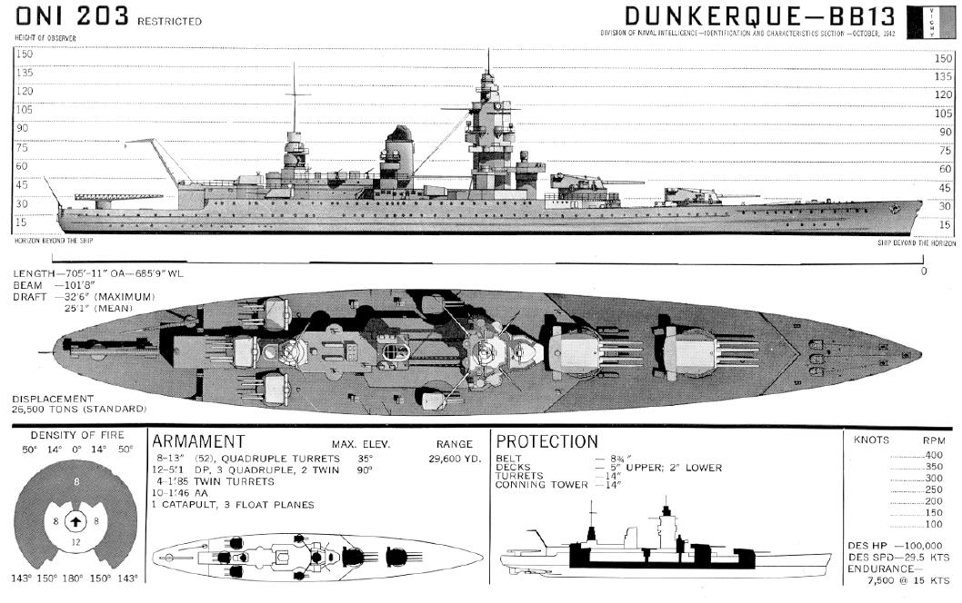 October 1942 print created by the Office of Naval Intelligence to assist with the recognition of French Navy ships.